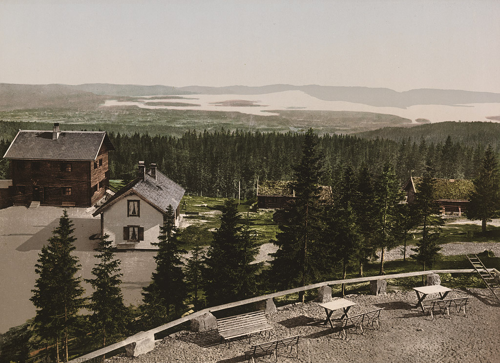 Tittel / Title: 7169. P. Z. Christiania. Frognersaeteren Dato / Date: ca 1890-1900 Fotograf / Photographer: ukjent / unknown Utgiver / Publisher: Photochrom Zürich/Photoglob Zürich AG Sted / Place: Oslo, Frognerseteren Eier / Owner Institution: Nasjonalbiblioteket / National Library of Norway Lenke / Link: Bildesignatur / Image Number: bldsa_FA0716